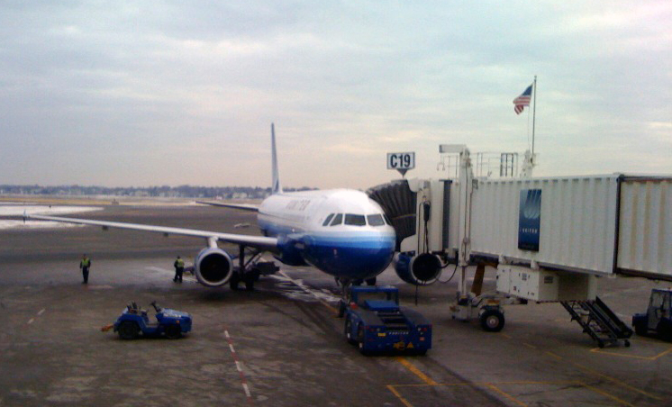 Gate C19 at Boston's Logan International Airport was the starting gate of United Flight 175 on September 11, 2001. The American flag was added to memorialize the site.